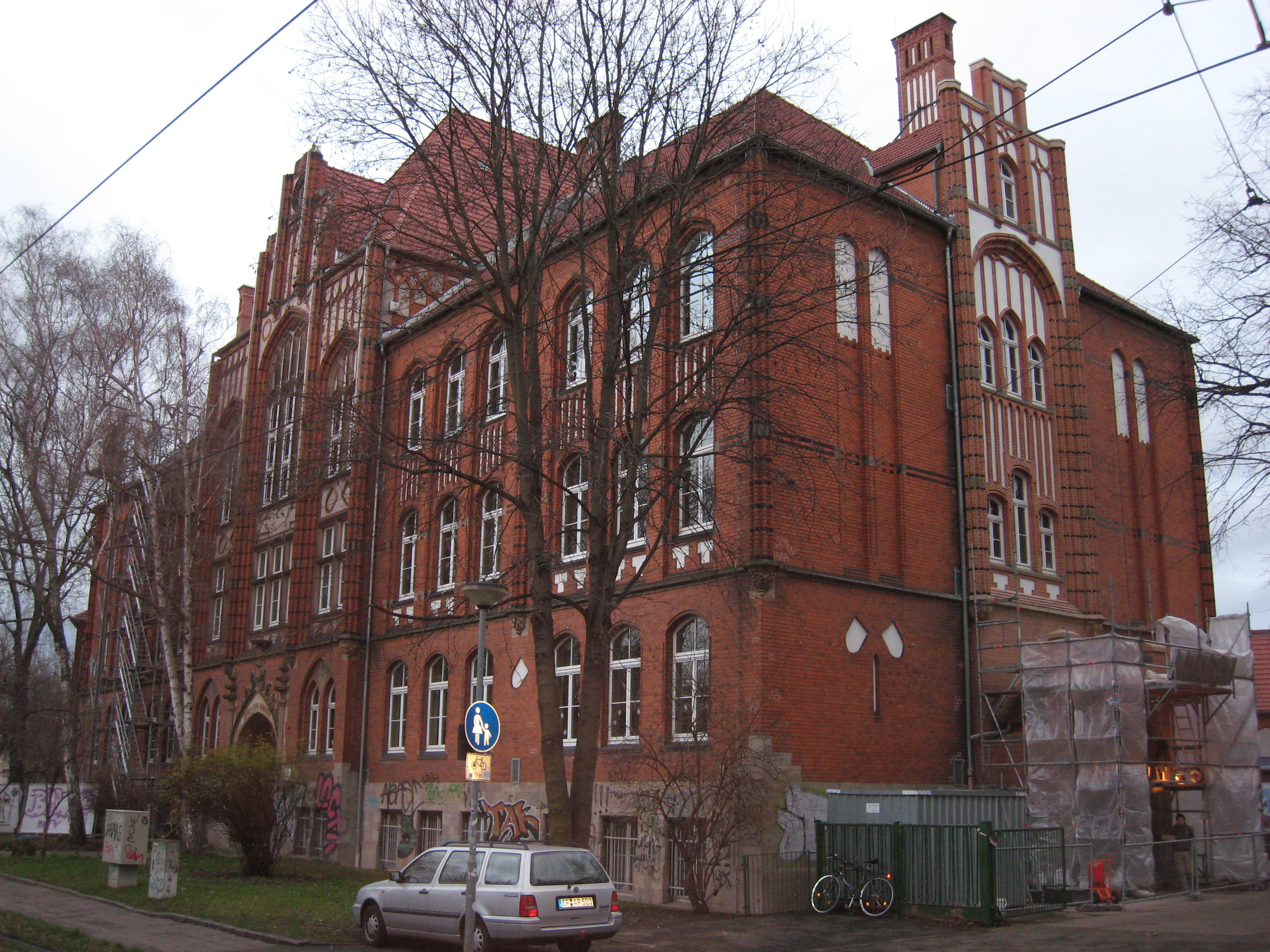 Königin Luise Schule Erfurt 6